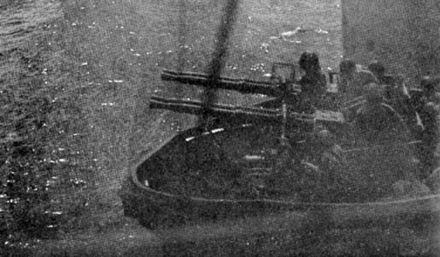 A 40mm Bofors quad gun mount on the starboard side of the the U.S. Navy light cruiser USS Montpelier (CL-57).